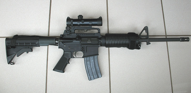 Colt AR-15 A3 Tactical Carbine. Used by counter-terrorist (CT) forces in Counter-Strike